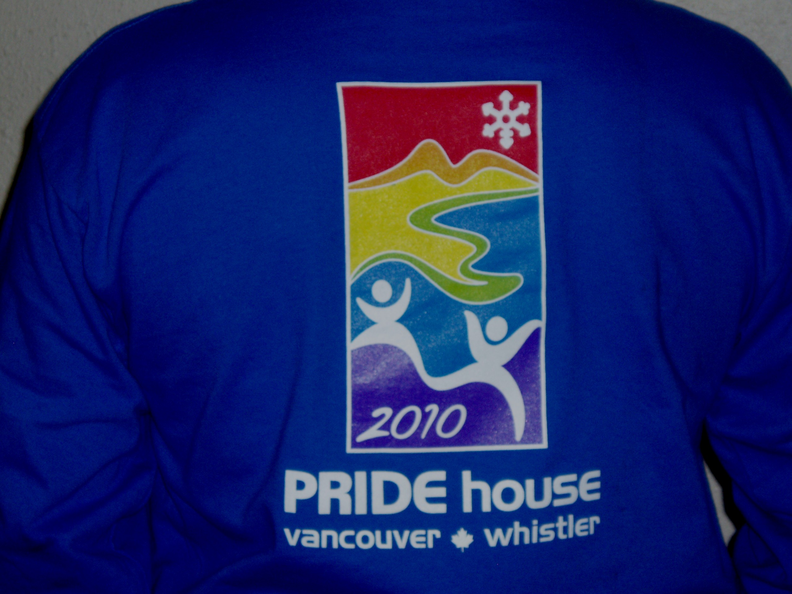 T-shirt of PrideHouse of Vancouver Winter Olimpics, teken by me and edited on my own computer (taken in Surrey, Canada in my own home)